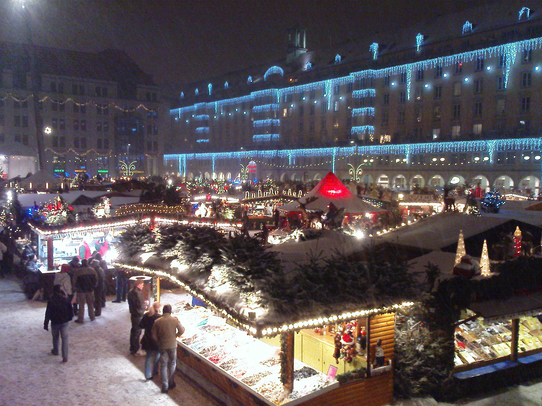 575. Christmas market in Dresden, Germany